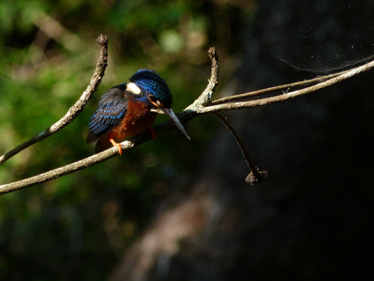 Alcedo meninting, Biligirirangan Hills (a new record for the region) - 2 December 2012